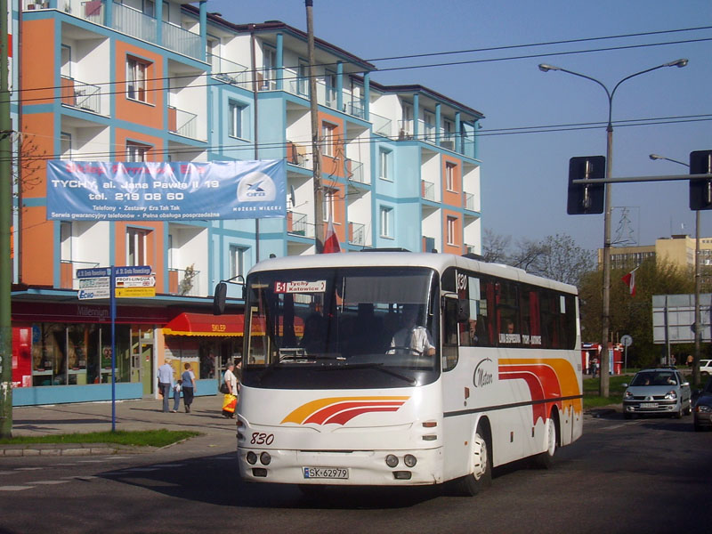 Autosan A1010T Lider Midi bus (#830) in Poland. Built 2003, Meteor Jaworzno operator.